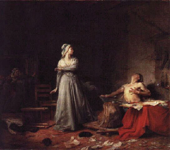 Author: Santiago Rebull, Mexican painter. 1875.